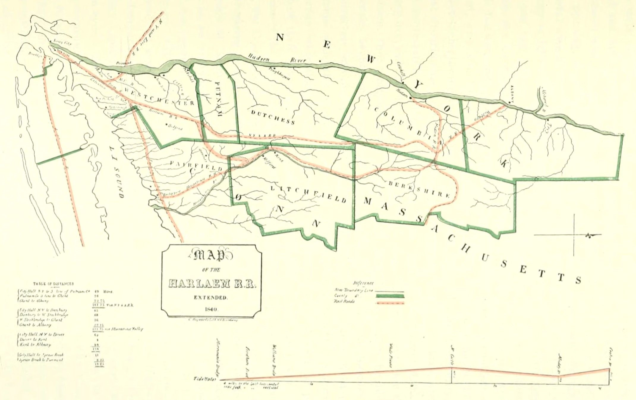 Map of the Harlaem Rail Road extended, 1840, showing planned connection with New York and Erie Railroad